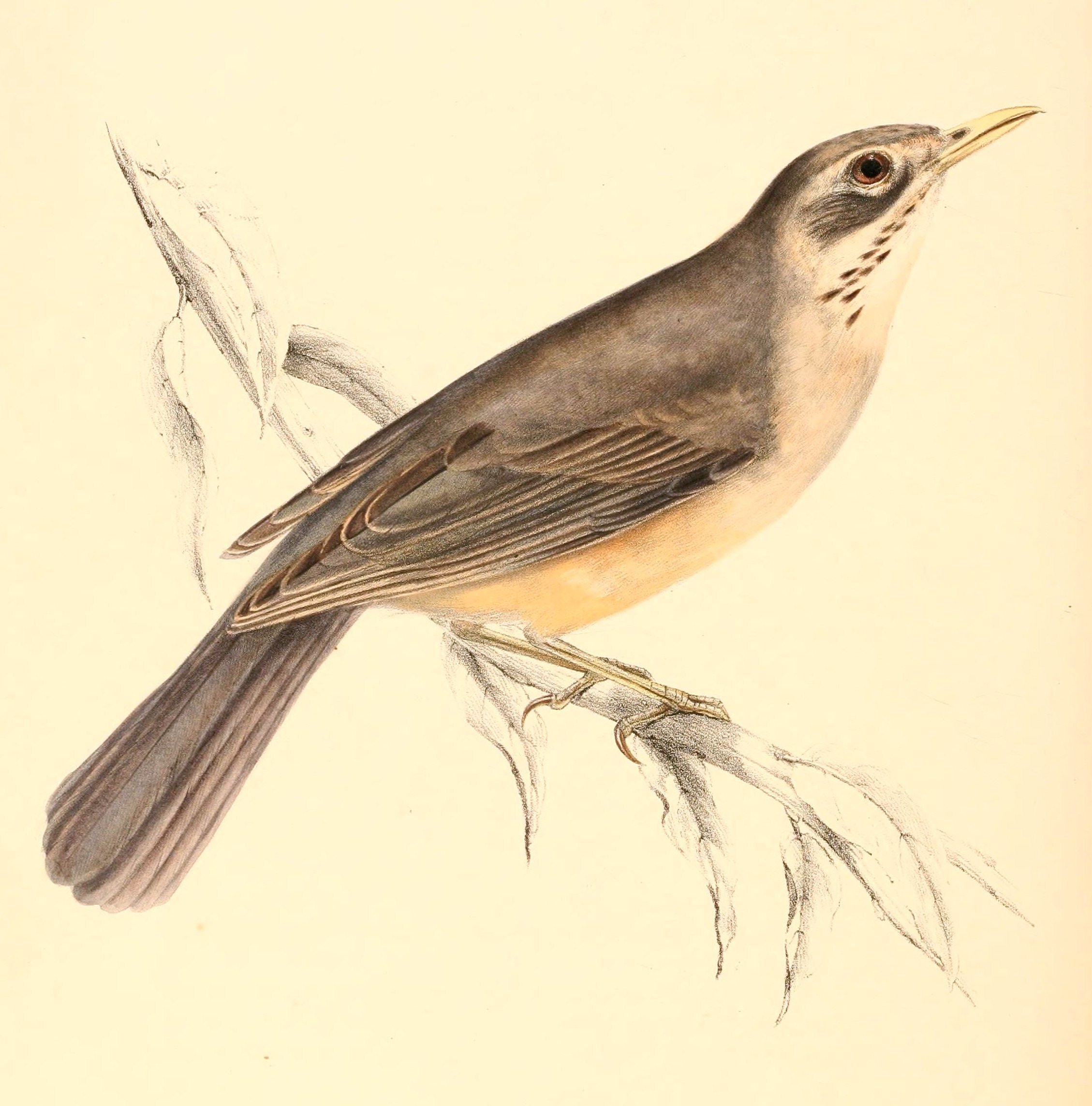 « Turdus libonyana » = Turdus libonyana libonyana (Subspecies of Kurrichane Thrush) - male